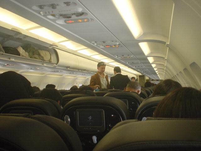 Interior of a StarFlyer Airbus A320-200 before take-off, photo taken by uploader